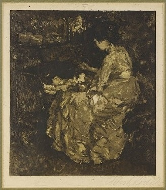 Moeder, een kind in de wieg pap voerend (ets, museum Jan Cunen)